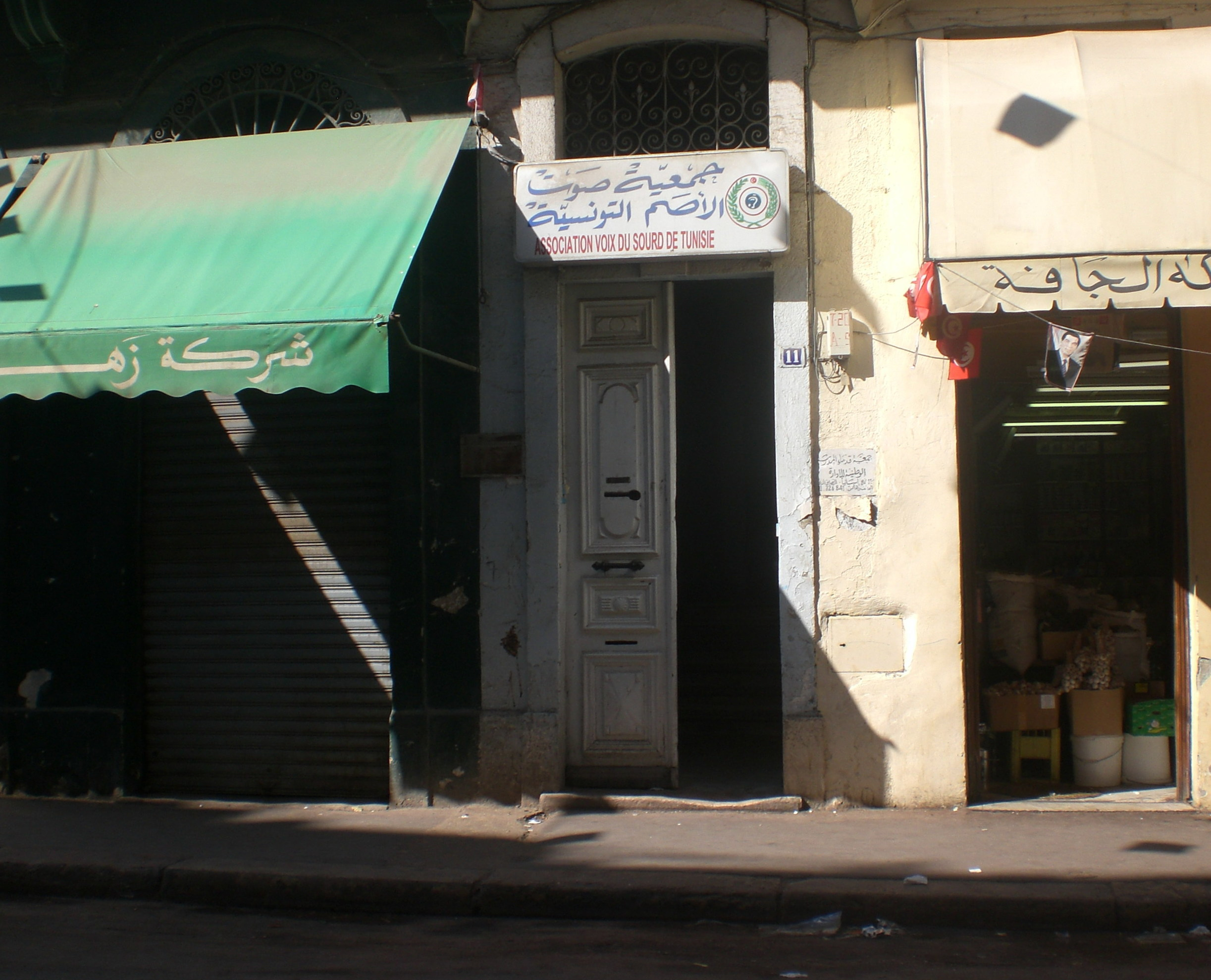 The ancient local of UGET, Rue d'Espagne-Tunis